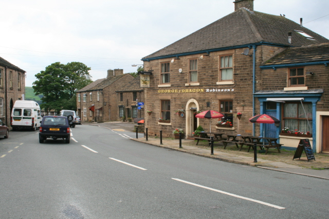 George and Dragon In Charlesworth near Glossop. Despite the pavement seats and parasols, hardly a continental scene.